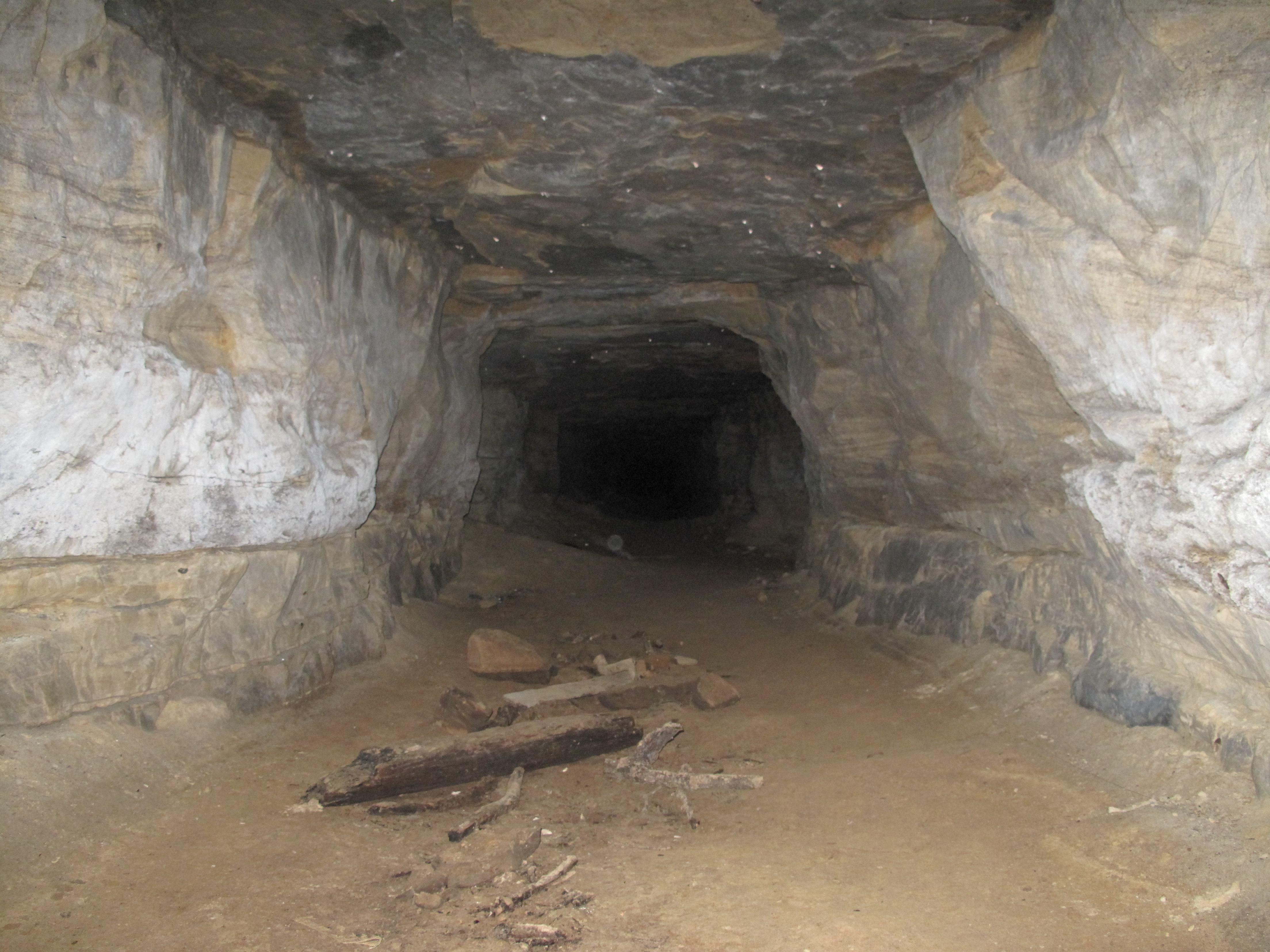 Former Ülgase phosphorite mine near Tallinn, Estonia.